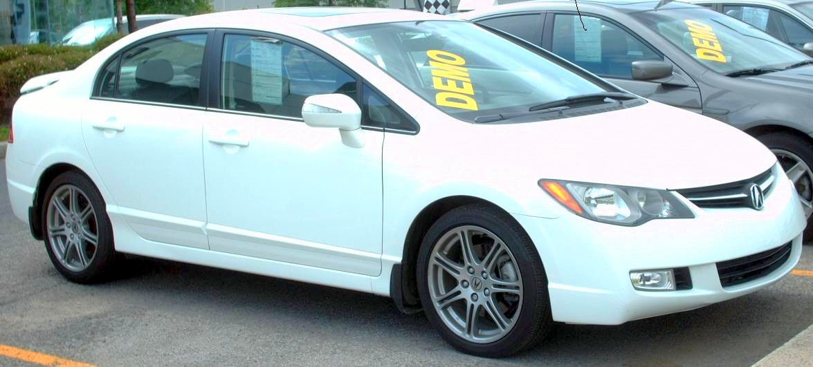 2007 Acura CSX Type-S photographed in Montreal, Quebec, Canada.